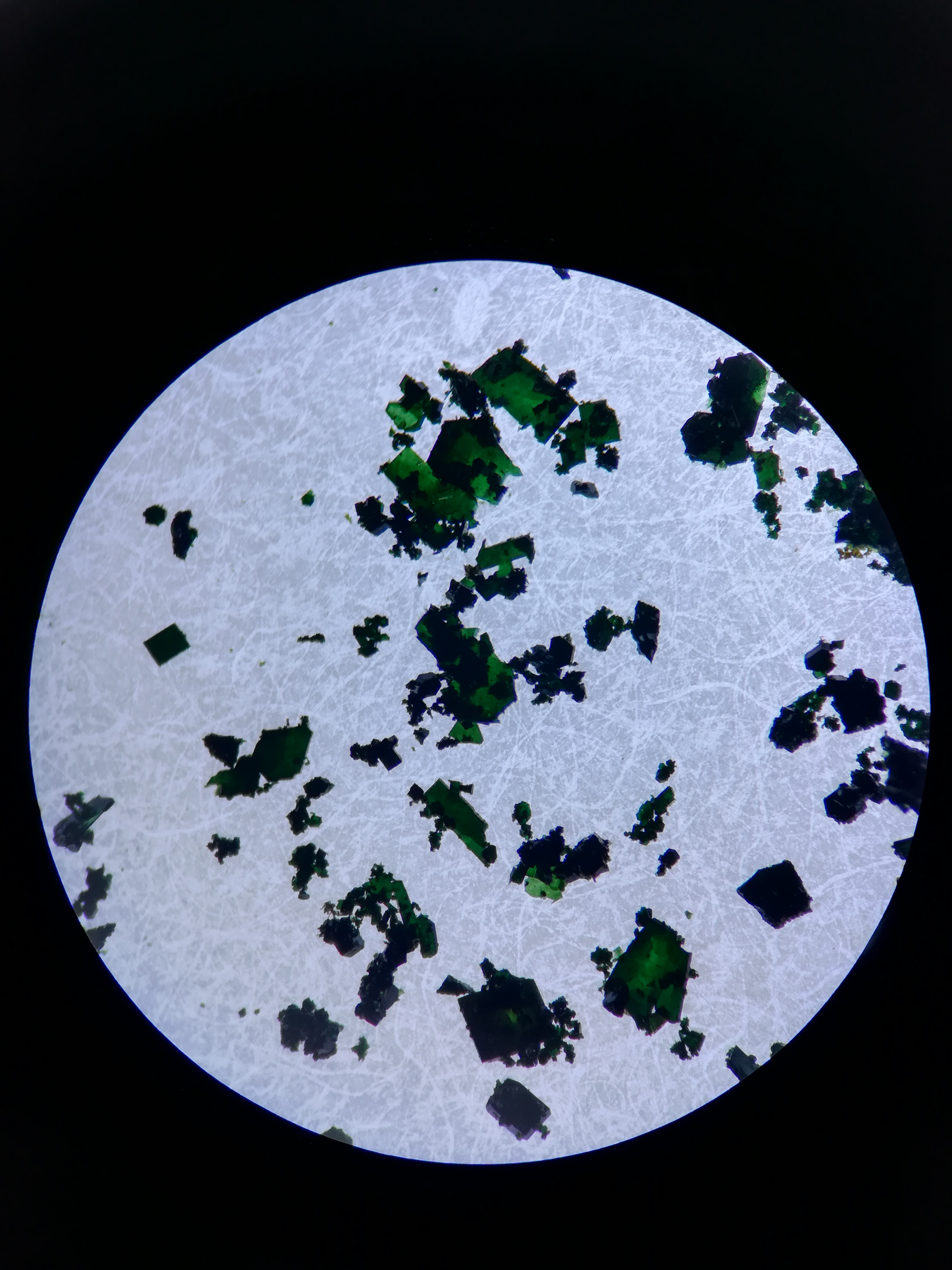 Green crystals of Co(acac)3 recrystallized by acetone.